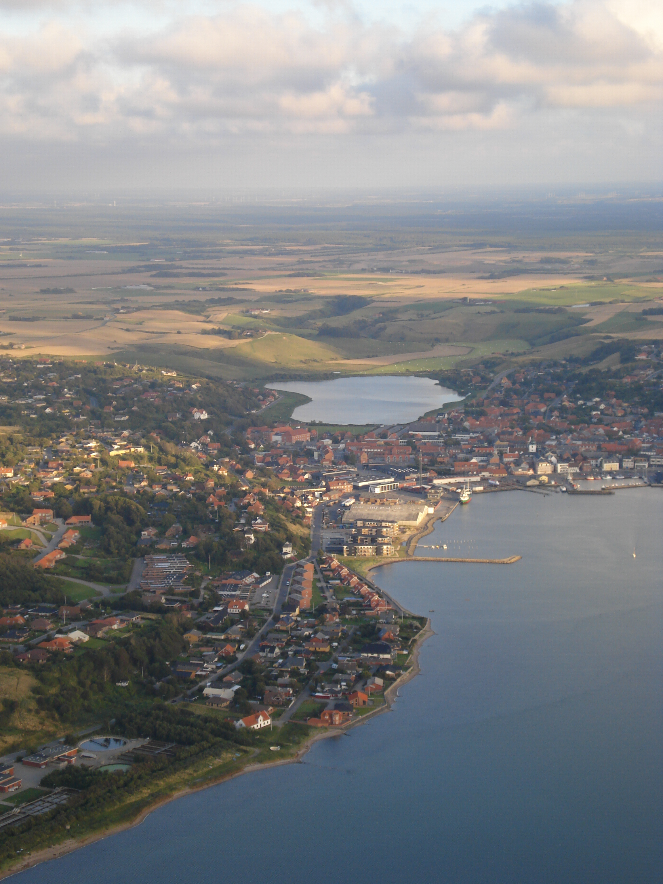 Lemvig, Danmark, own work User:Anigif